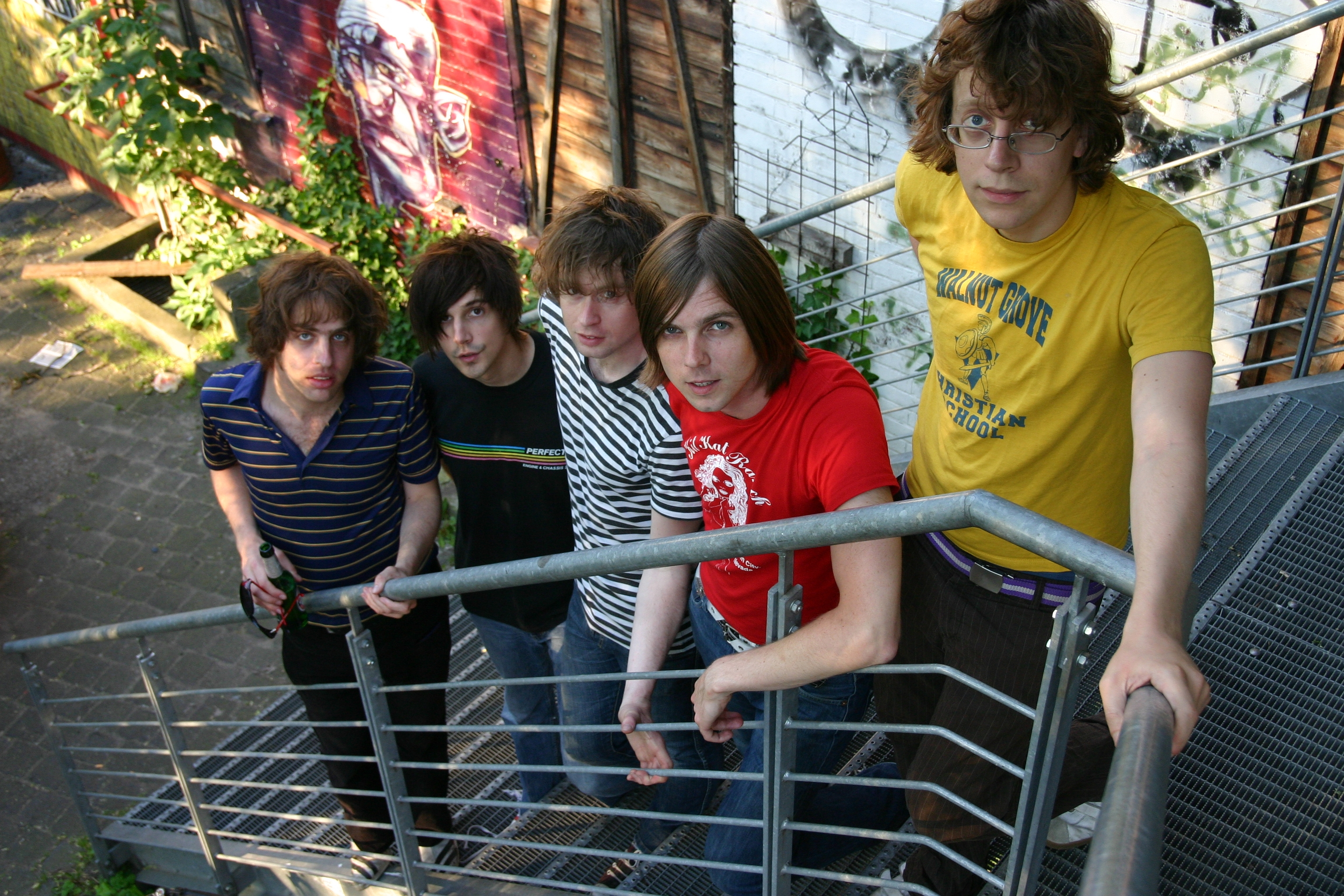 British pop band Chikinki